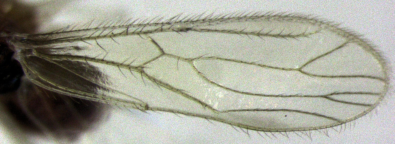 Forewing of Mepleres watti (wing length about 2.4 mm), see fig. 1 in Smithers, C.N. 1973: A new species and new records of Psocoptera from the Kermadec Islands. New Zealand entomologist, 5(2): 147–150. Tamaki Campus, on Pittosporum eugenioides (36°52′51″S 174°51′11″E / 36.880949°S 174.852996°E), Auckland, New Zealand, 28 Aug 2011, S.E. Thorpe.